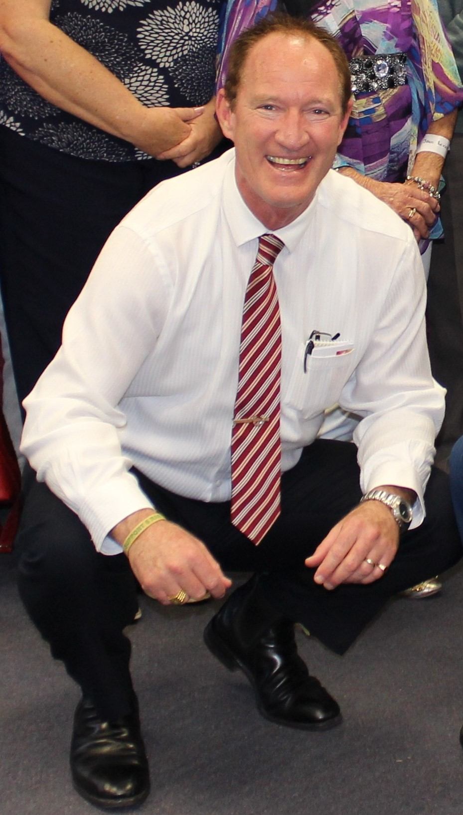 Cropped photograph of Steve Dickson at a Neighbourhood Watch event in 2014